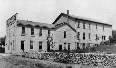 The birth place of what is now Lee University was a single room in the Church of God Publishing House in Cleveland, Tennessee.